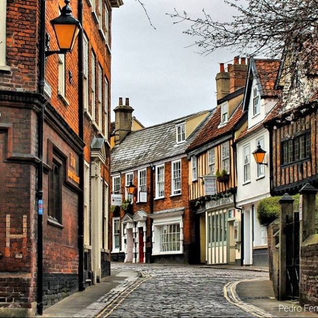 streetphotography #Norwich #norfolk #visitnorwich #enjoynorwich #walk #places #downtown #HDR